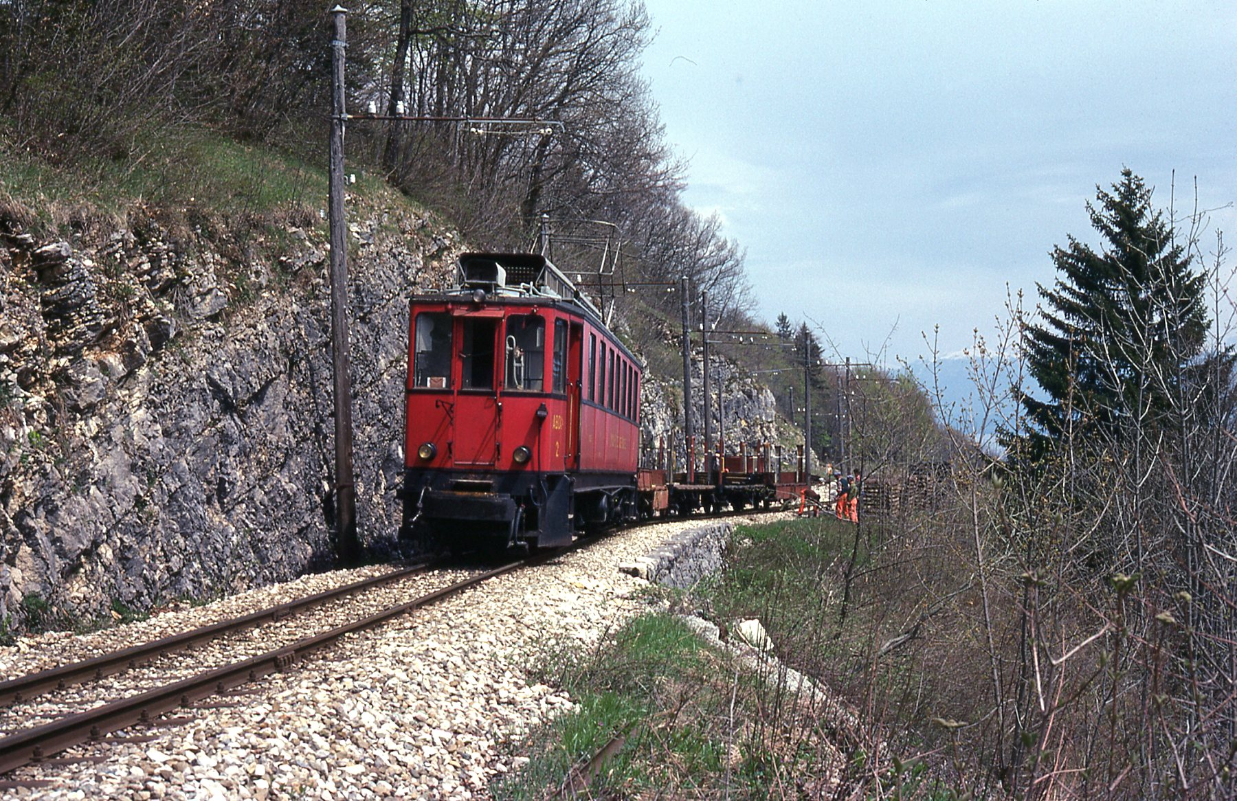 Narrow gauge railway Nyon–Saint-Cergue–La Cure